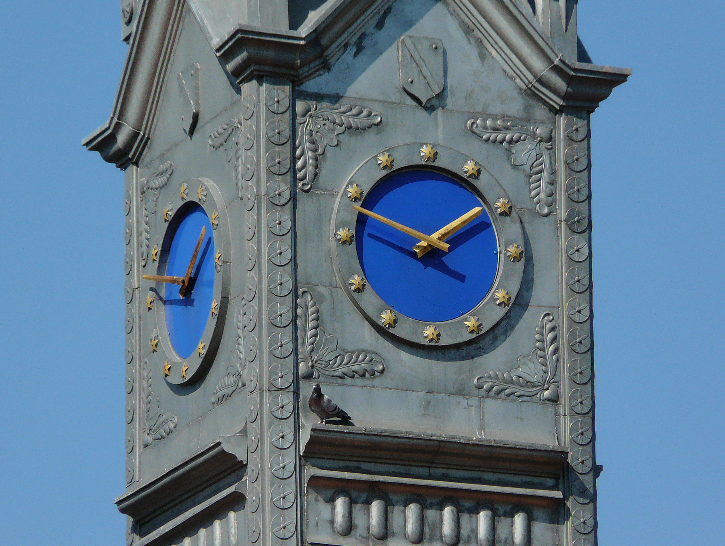 The Town hall of Dunaföldvár (clock)